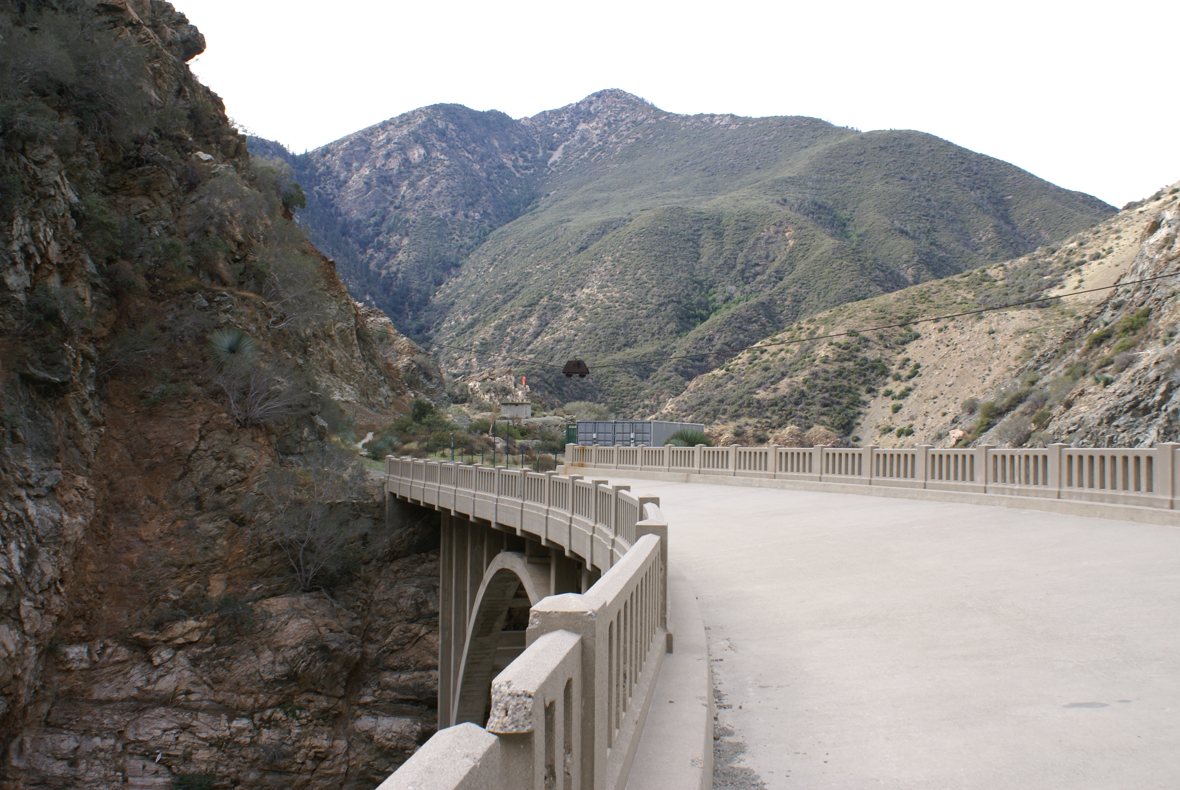 Bridge to Nowhere over the East Fork of the San Gabriel River in the Sheep Mountain Wilderness, Southern California.